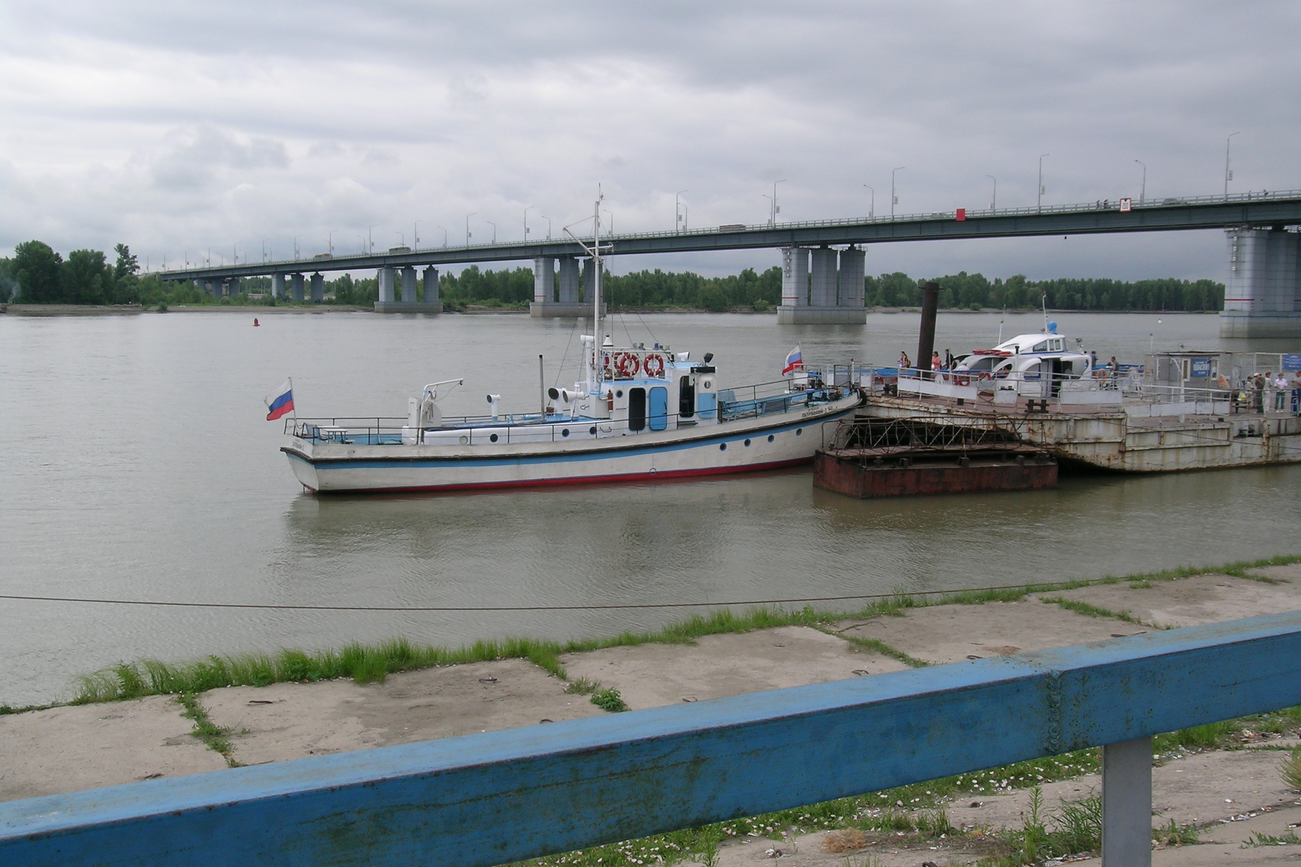 River Ob in Barnaul (Russia).